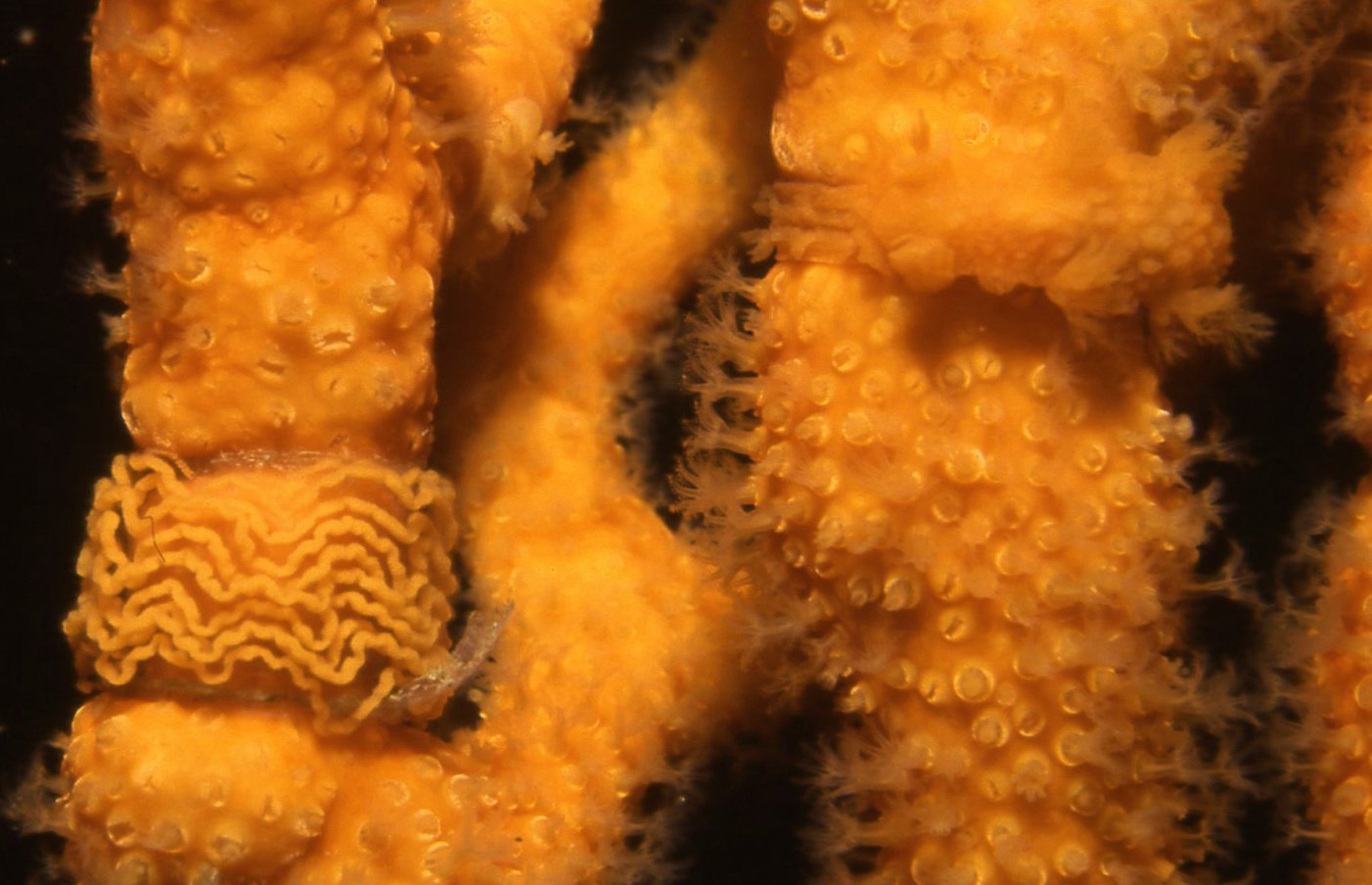 A photograph of the whip fan nudibranch, Tritonia nilsodhneri, and its egg ribbon, taken off the Cape Peninsula in False Bay in about 24m of water. Image taken using a Nikonos V camera. Animal total length about 15mm.